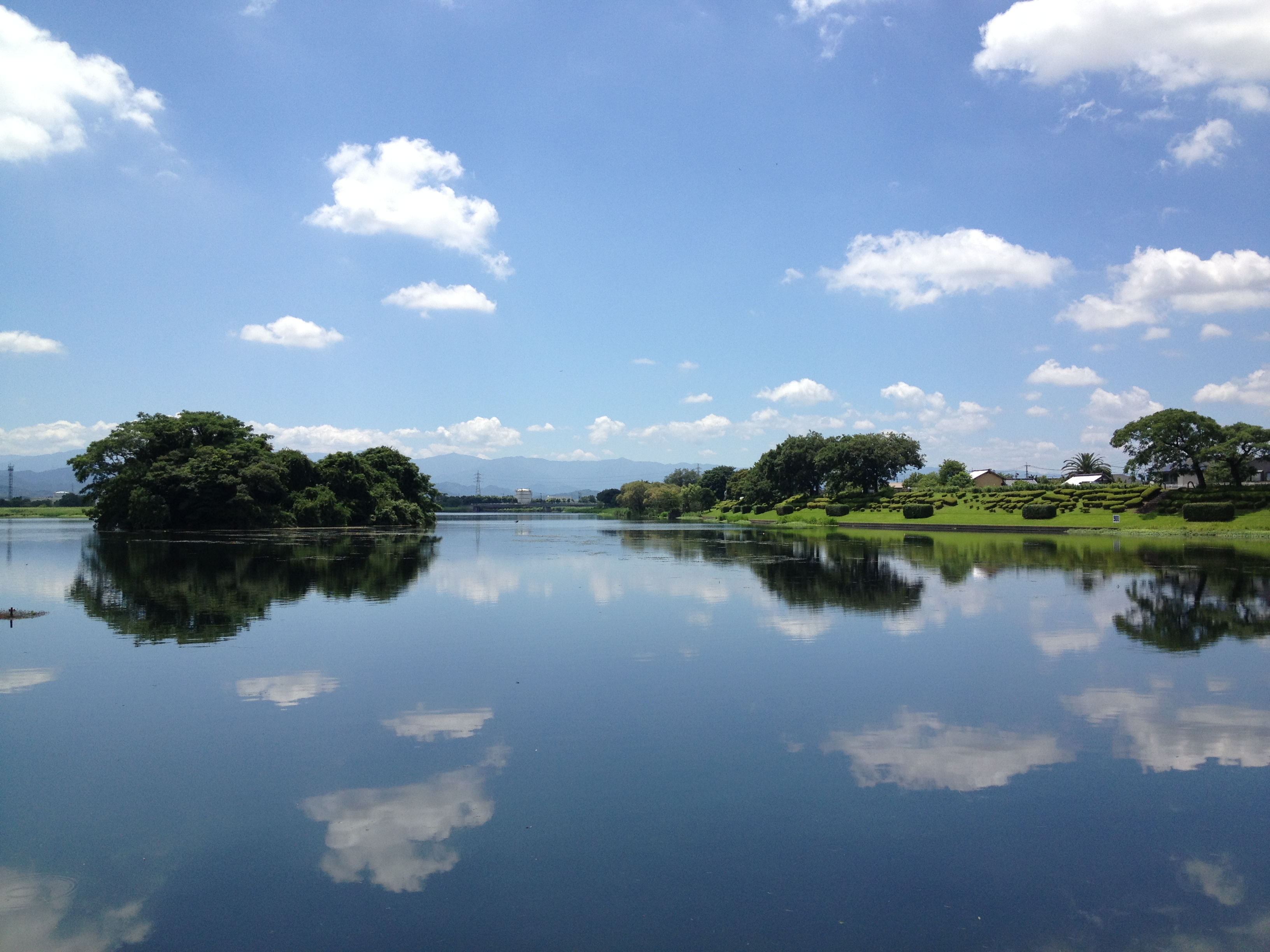 Lake Shimoezu (Shimoezu-ko) in summer